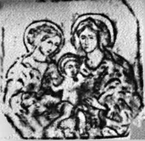 Kobryn COA from the Royal Privileges Act (1662).